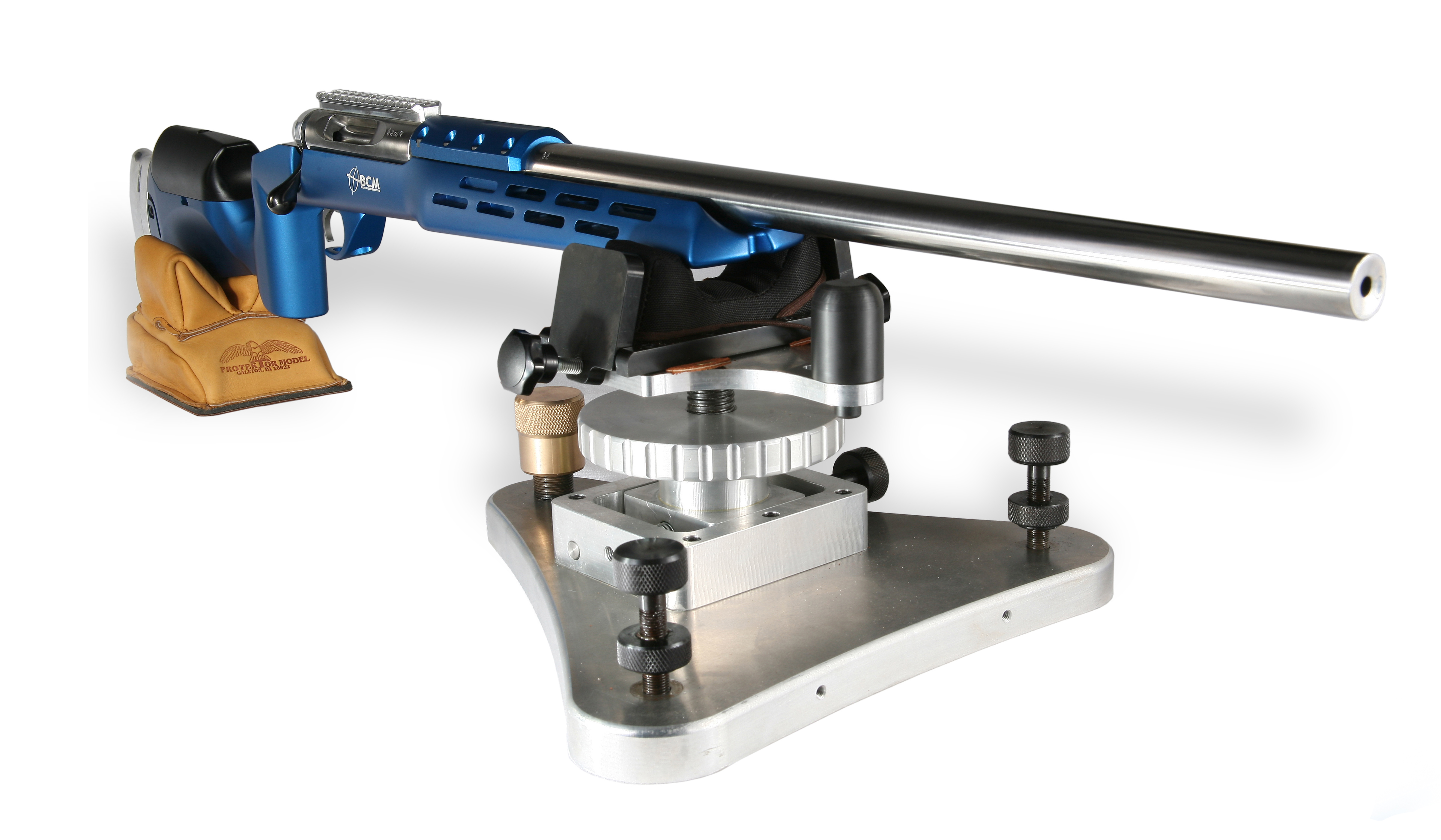 BCM Europearms BARREL BLOCK single shot. Configurations: - 223 Rem barrels 660 mm - 6 PPC barrels 570 and 610 mm - 6 BR Norma barrels 610 mm - 6.5x47 Lapua barrels 610, 660, 710 mm - 6.5/284 Norma barrels 650 and 710 mm - 30 BR barrels 500 and 610 mm - 30 BCM barrels 610 mm - 308 Win. barrels 500, 550, 610, 660 and 710 mm